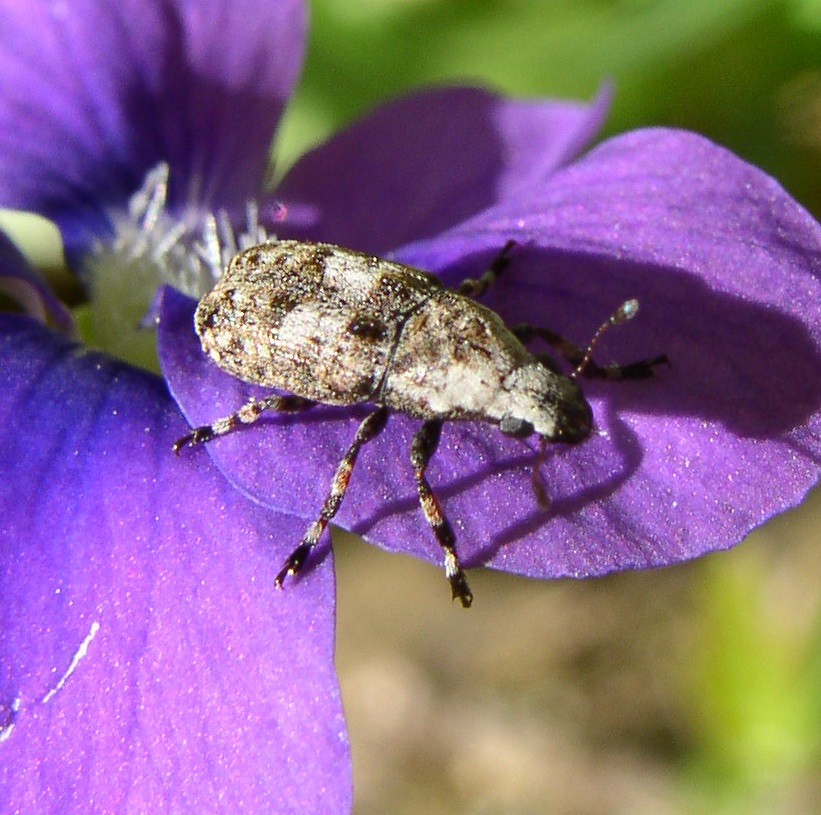 Fungus weevil, Euparius marmoreus, on flower. Shenks Ferry Glen, Lancaster County, Pennsylvania, USA.